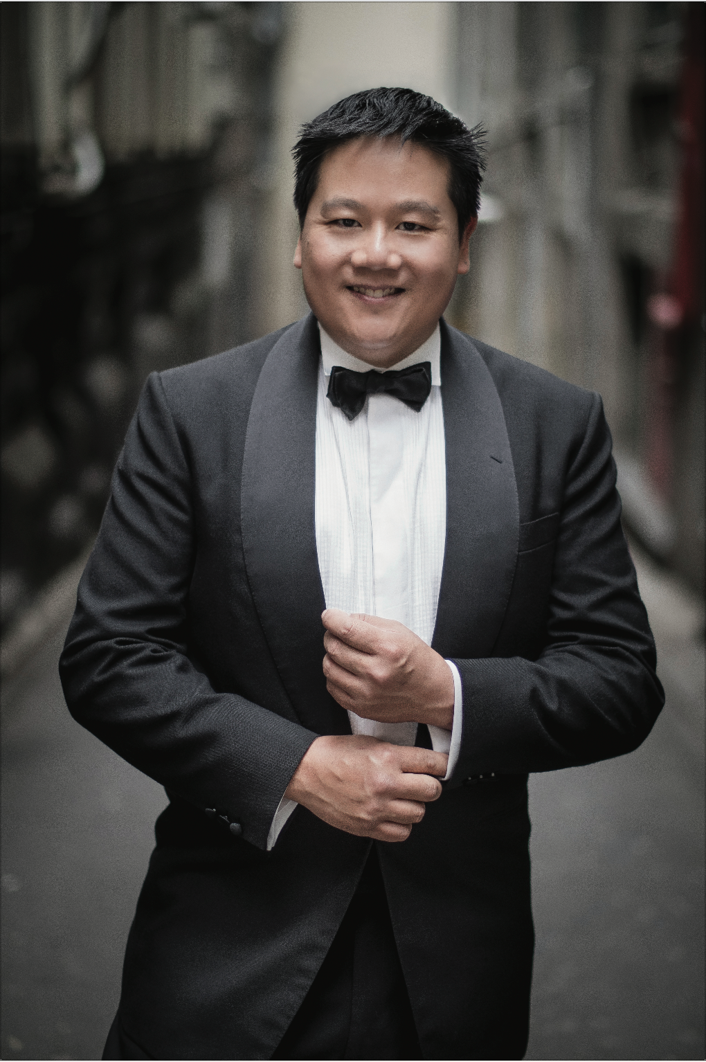 This image is an official profile image of Henry Choo, Australian operatic lyric tenor.